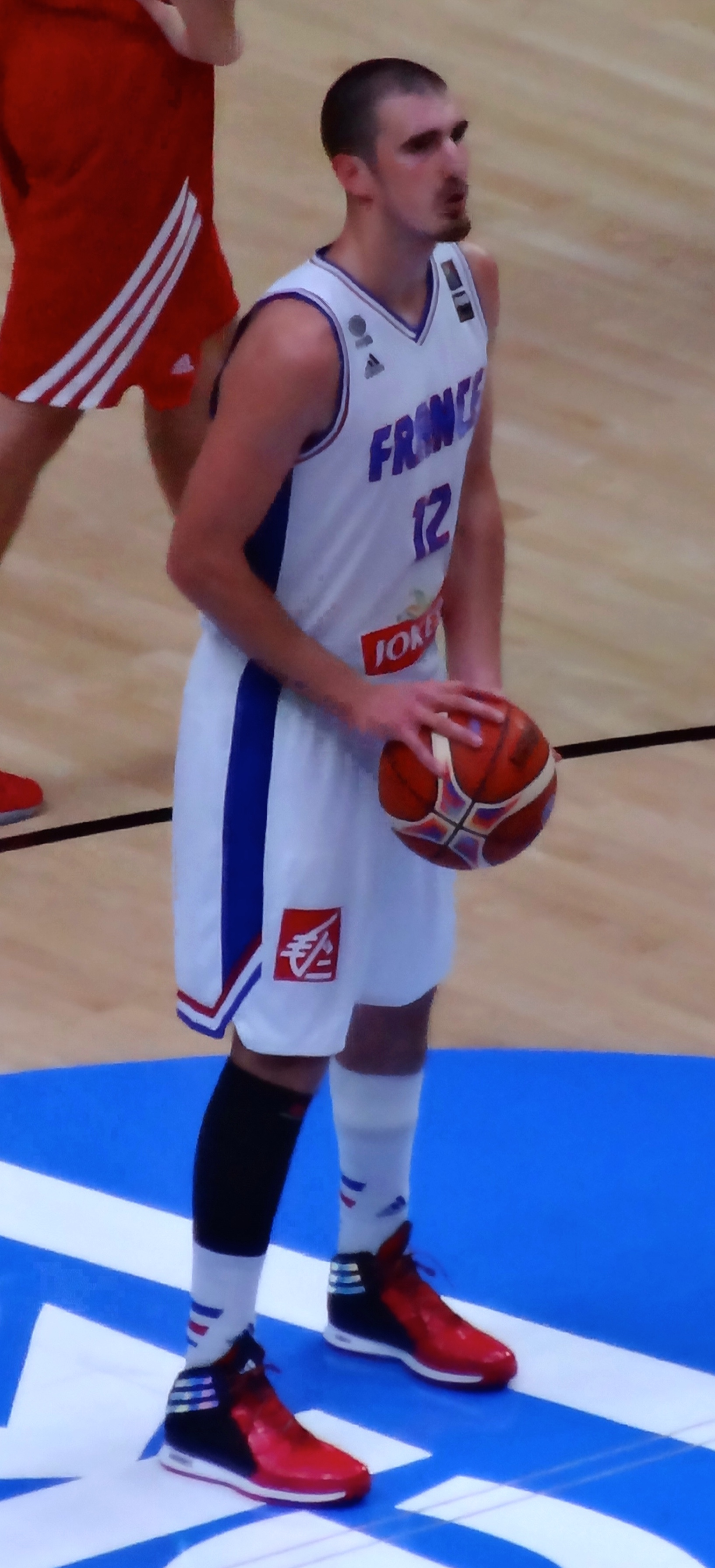 Nando de Colo (France)